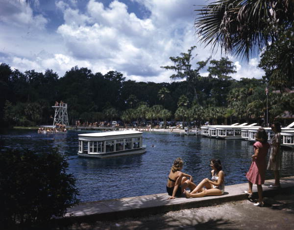 Local call number: JJS0234 Title: Silver Springs: Ocala, Florida Date: June 30, 1952 Physical descrip: 1 transparency - col. - 4 x 5 in. Series Title: Repository: 500 S. Bronough St., Tallahassee, FL 32399-0250 USA. Contact: 850.245.6700. Persistent URL